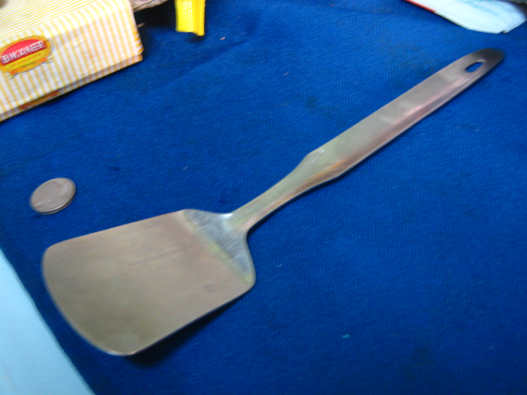 Utensil used in Indian Kitchen